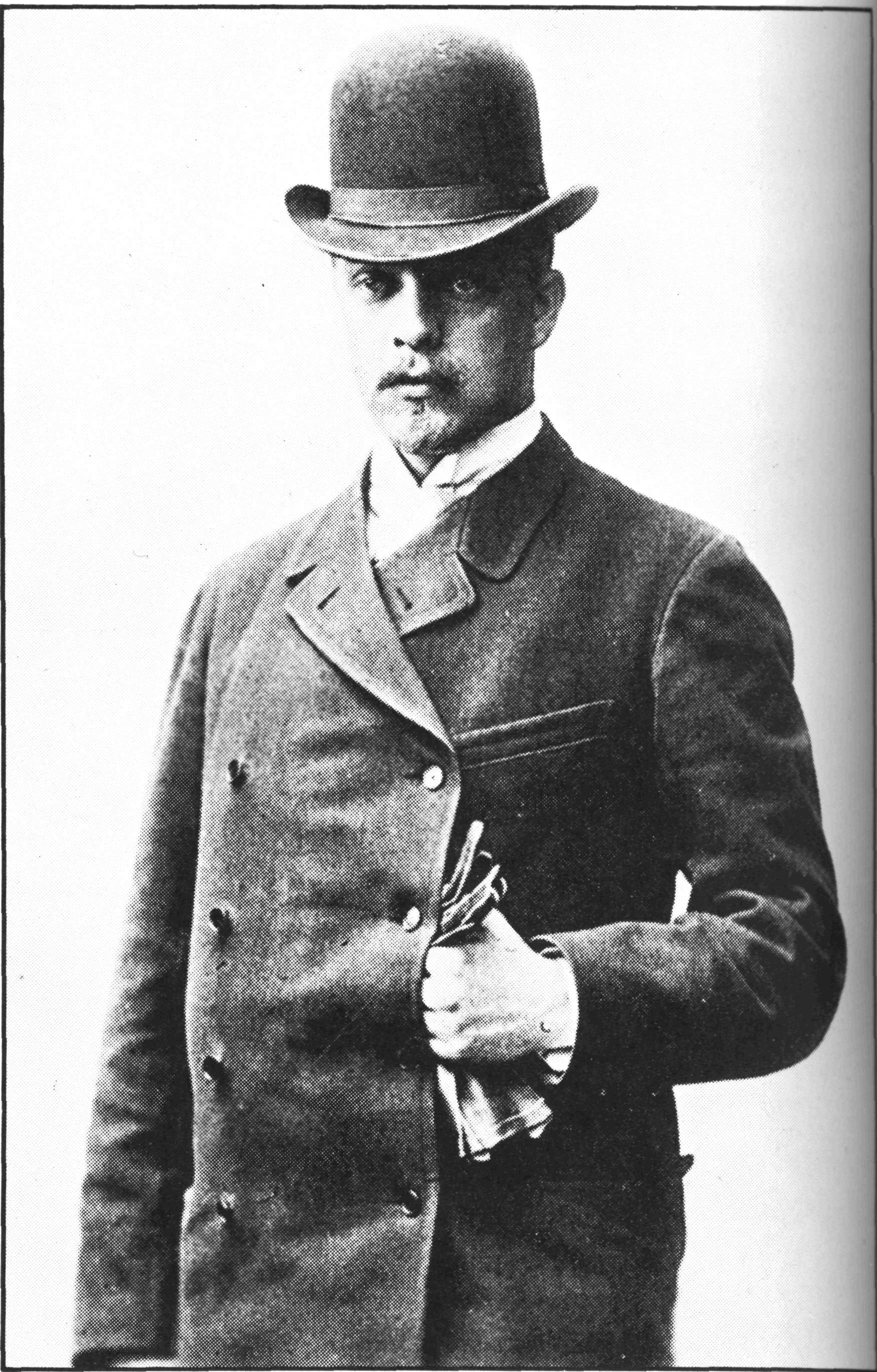 Kar August Tavaststjerna.